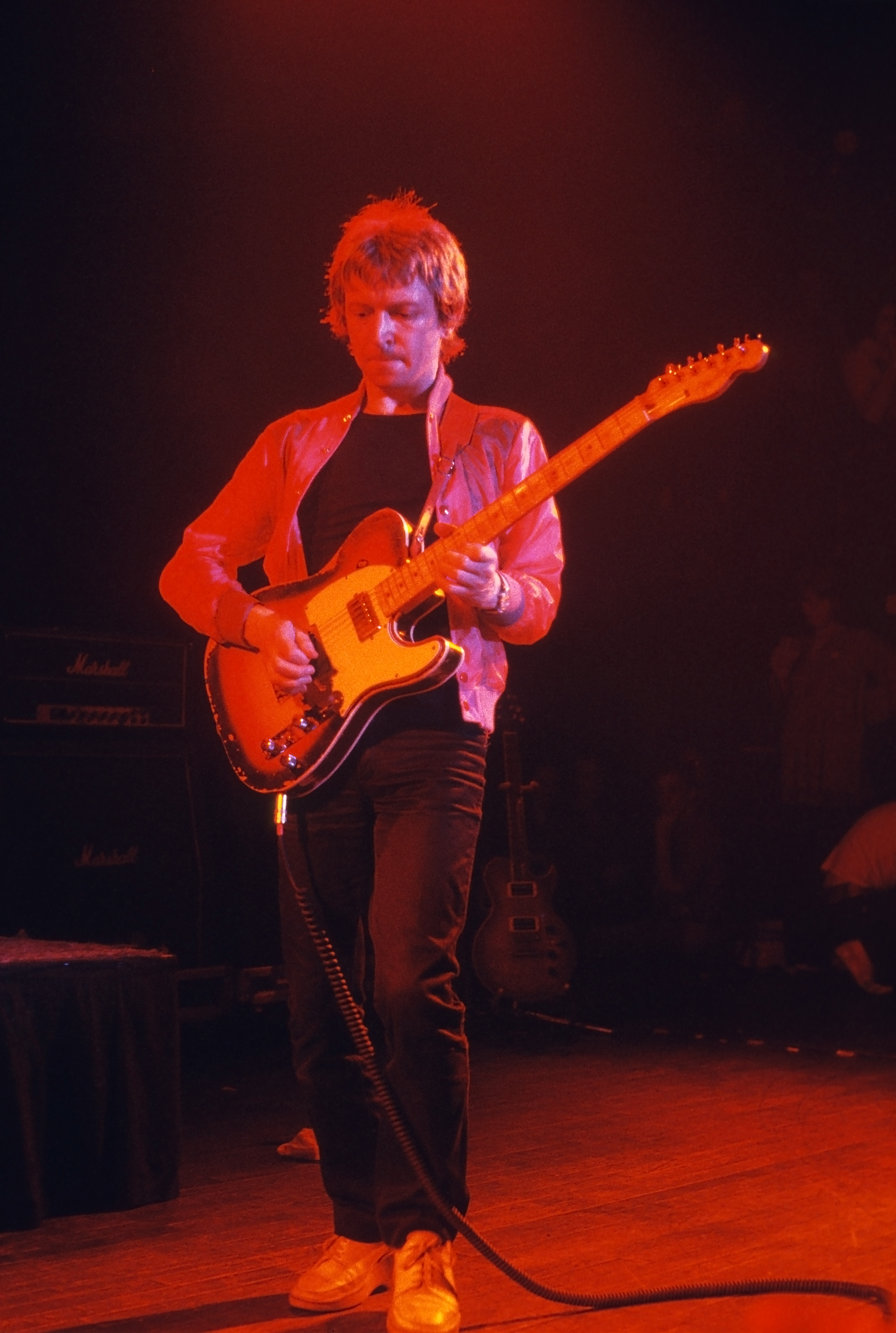 Andy Summers at the Police concert, Agora Ballroom, Atlanta, Georgia in 1979. Scanned Ektachrome slide.